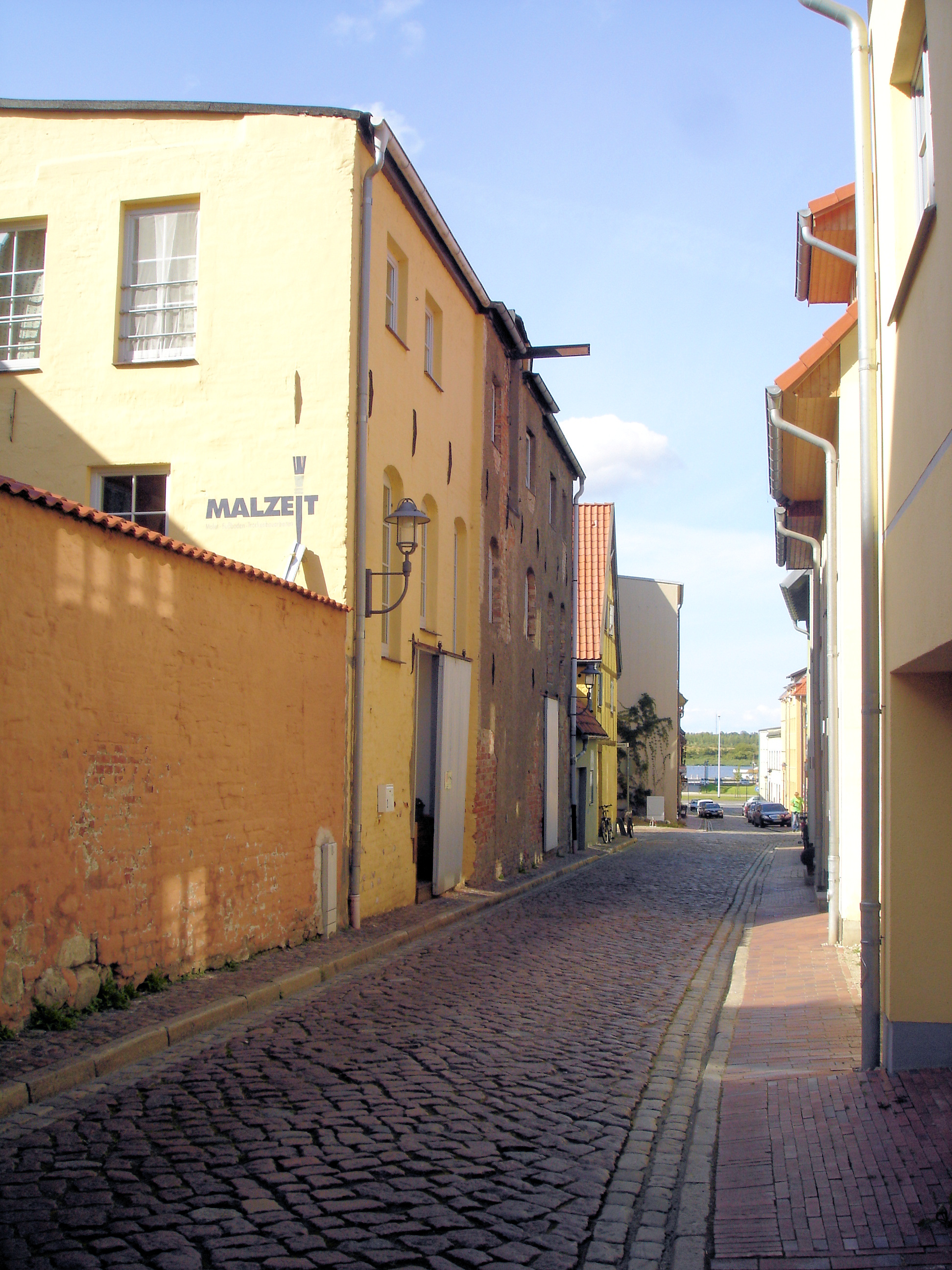 Street in the historic city of Rostock